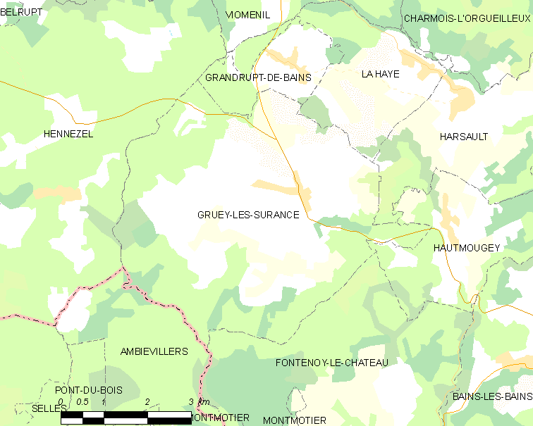 Map of French municipality Gruey-lès-Surance